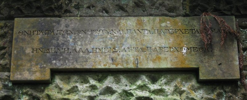 Forbes Mausoleum (inscription above doorway)